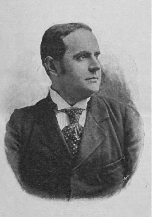 Sándor Somló